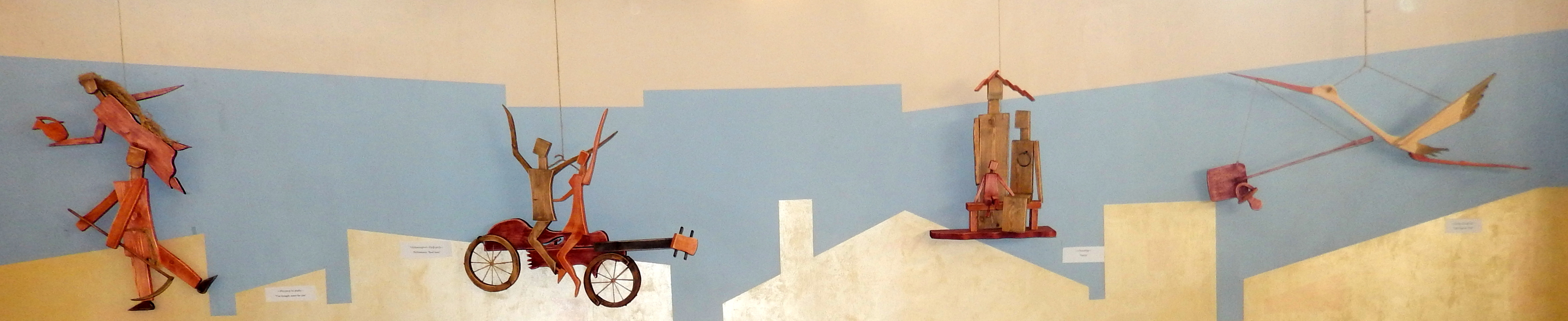 Wooden creatures by Sergey Tovmassian, taken during his personal exhibition at Puppet's Theater, Yerevan